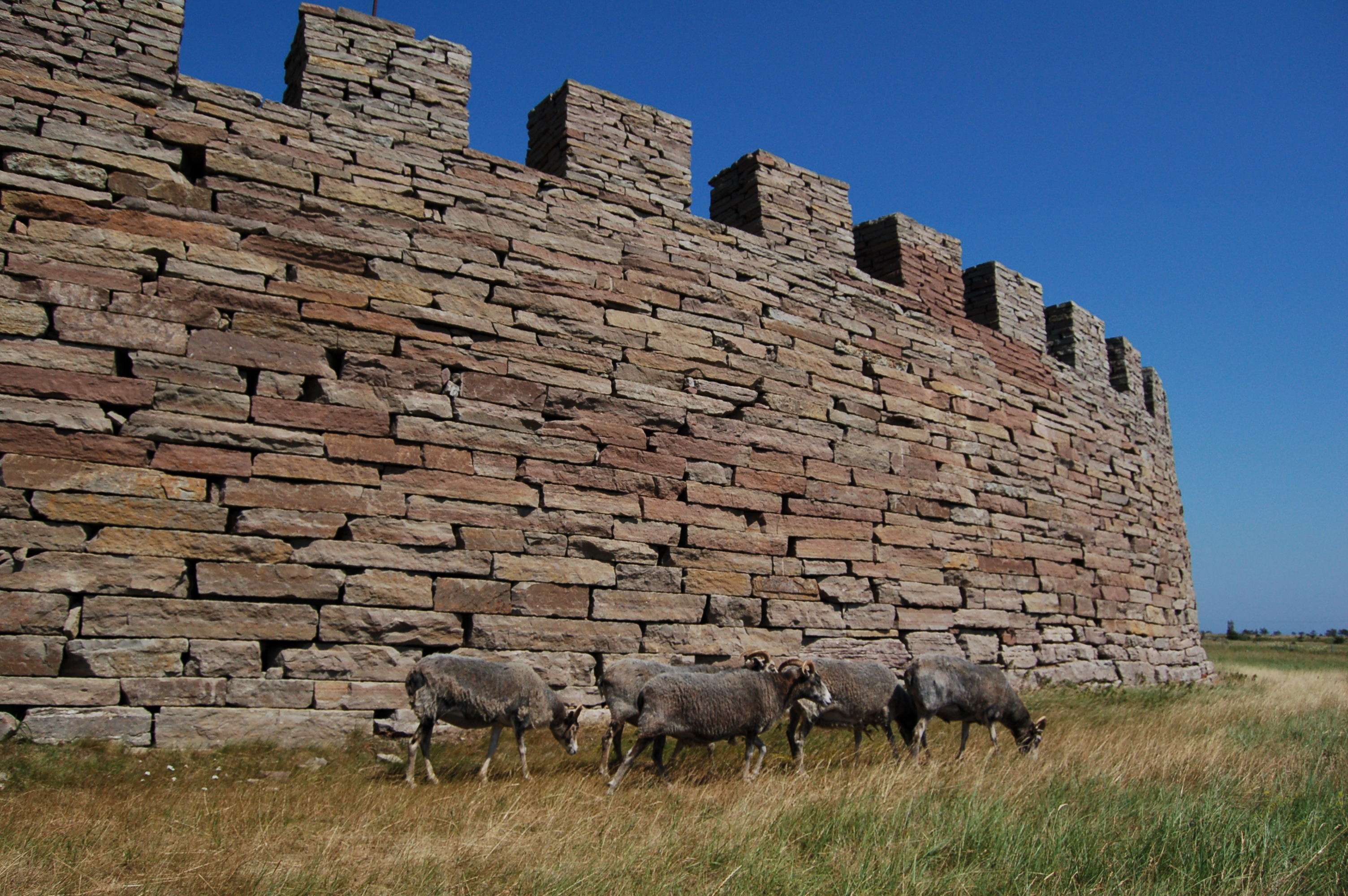 Sheep (Gute Sheep) by Eketorp Slott (Eketorps Castle), Öland, Sweden